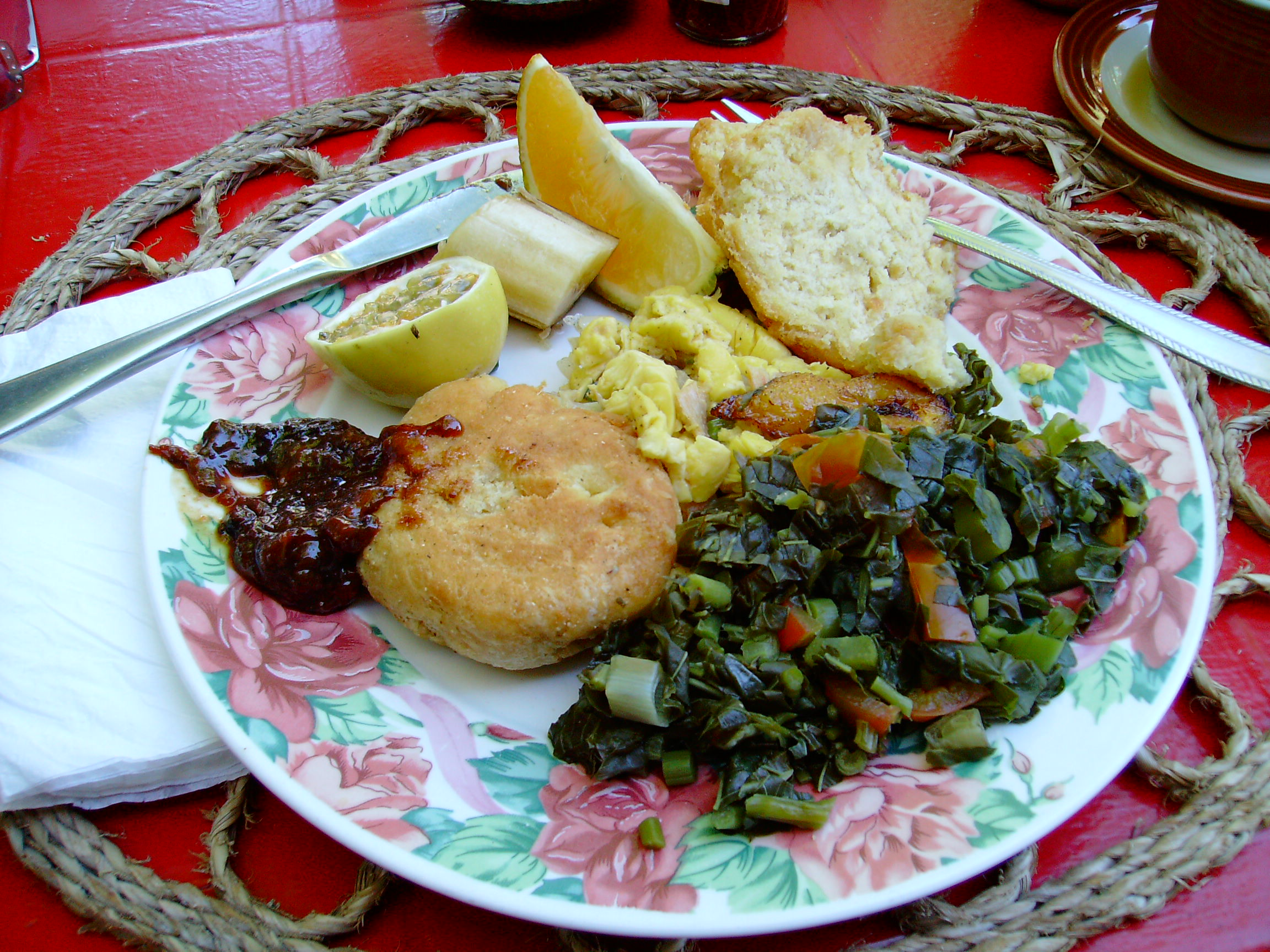 Jamaican breakfast ordered at Just Natural in Negril, Jamaica, 2007. Includes ackee and saltfish, the national dish of Jamaica, as well as callaloo (greens), fry dumplin, some have a dense biscuit with jam, citrus fruits and part of a honey banana. Tradditinal callaloo and fry dumplins are eaten for breakfast, washed down with fresh mint or herbal team.